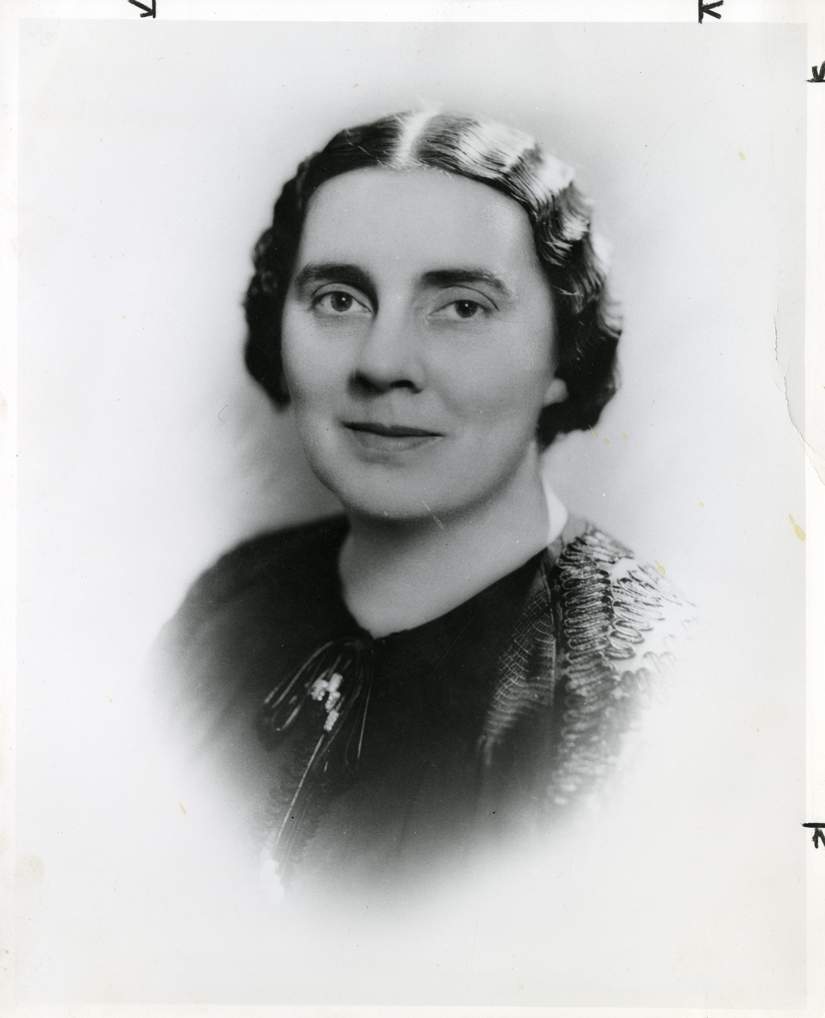 Creator: Underwood & Underwood Subject: Mack, Pauline Beery 1891-1974 Texas Women's University Pennsylvania State University Type: Black-and-White Prints Topic: Chemistry Women scientists Nutrition Local number: SIA Acc. 90-105 [SIA-SIA2008-5750] Summary: Pauline Gracia Beery Mack (1891-1974) was a chemist-nutritionist who moved to Texas Women's University from Penn State in the early 1950s. Skilled at administration and at obtaining grants, Mack built the largest research unit at a women's college at the time. Mack was the founder and principal editor of Chemistry. Cite as: Acc. 90-105 - Science Service, Records, 1920s-1970s, Smithsonian Institution Archives Persistent URL:Link to data base record Repository:Smithsonian Institution Archives View more collections from the Smithsonian Institution.